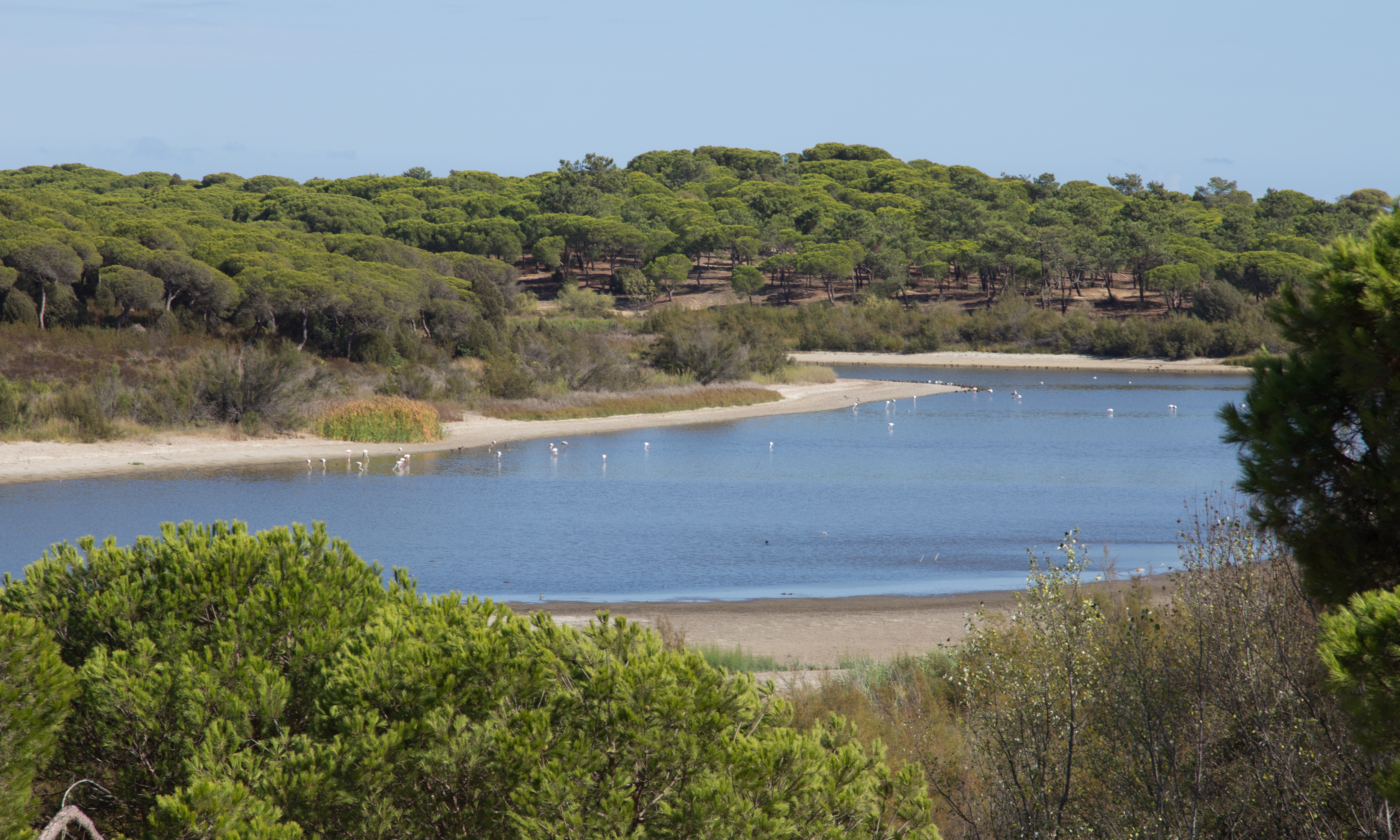 El Portil Lagoon, Huelva, Andalusia, Spain. This is a photography of a Site of Community Importance in Spain with the ID: ES6150001. Natura2000 entry, EEA entry